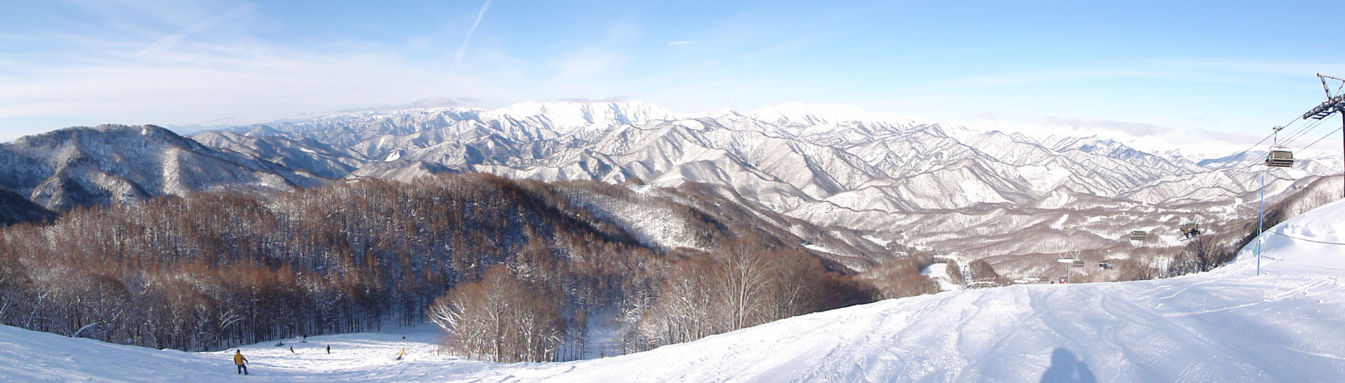 View from the top of Minakami Hodaigi Ski Area in Gunma Prefecture, Japan